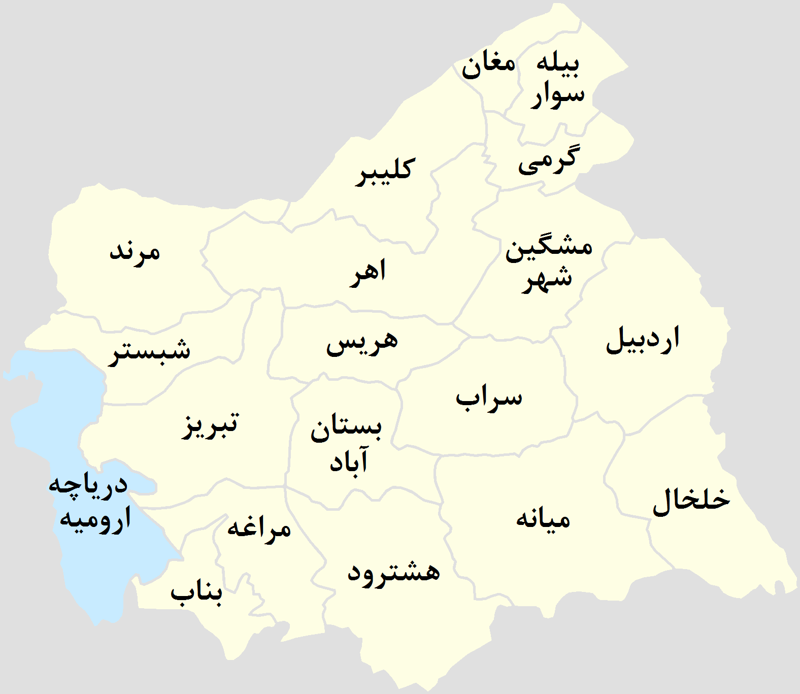 East Azerbaijan counties